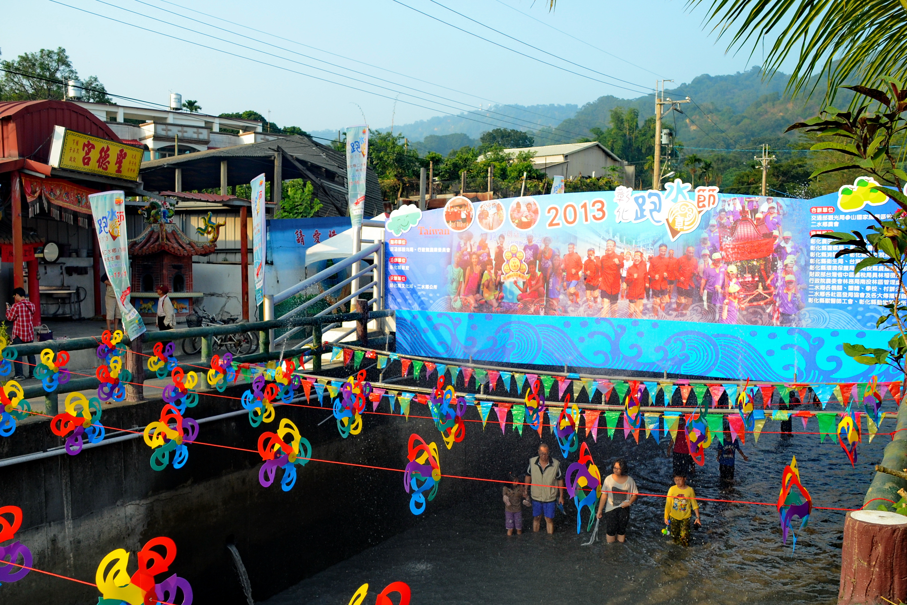 Taiwan Water Running Festival – Legend of Babao Canal, 2013, Ershui Township, Changhua County, Taiwan.